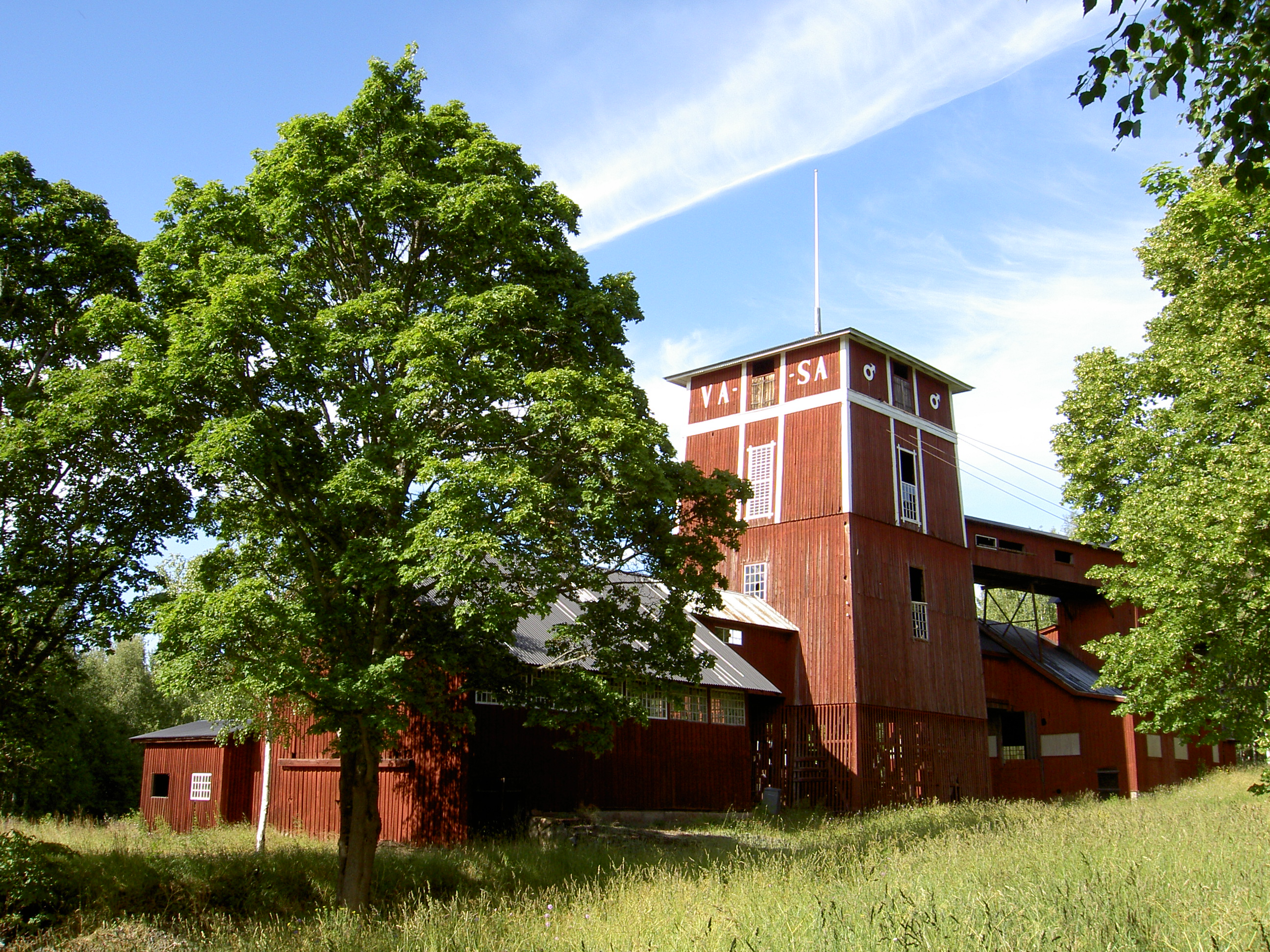 The Vasa shaft, Mine of Bispberg, Säter municipality, Sweden.